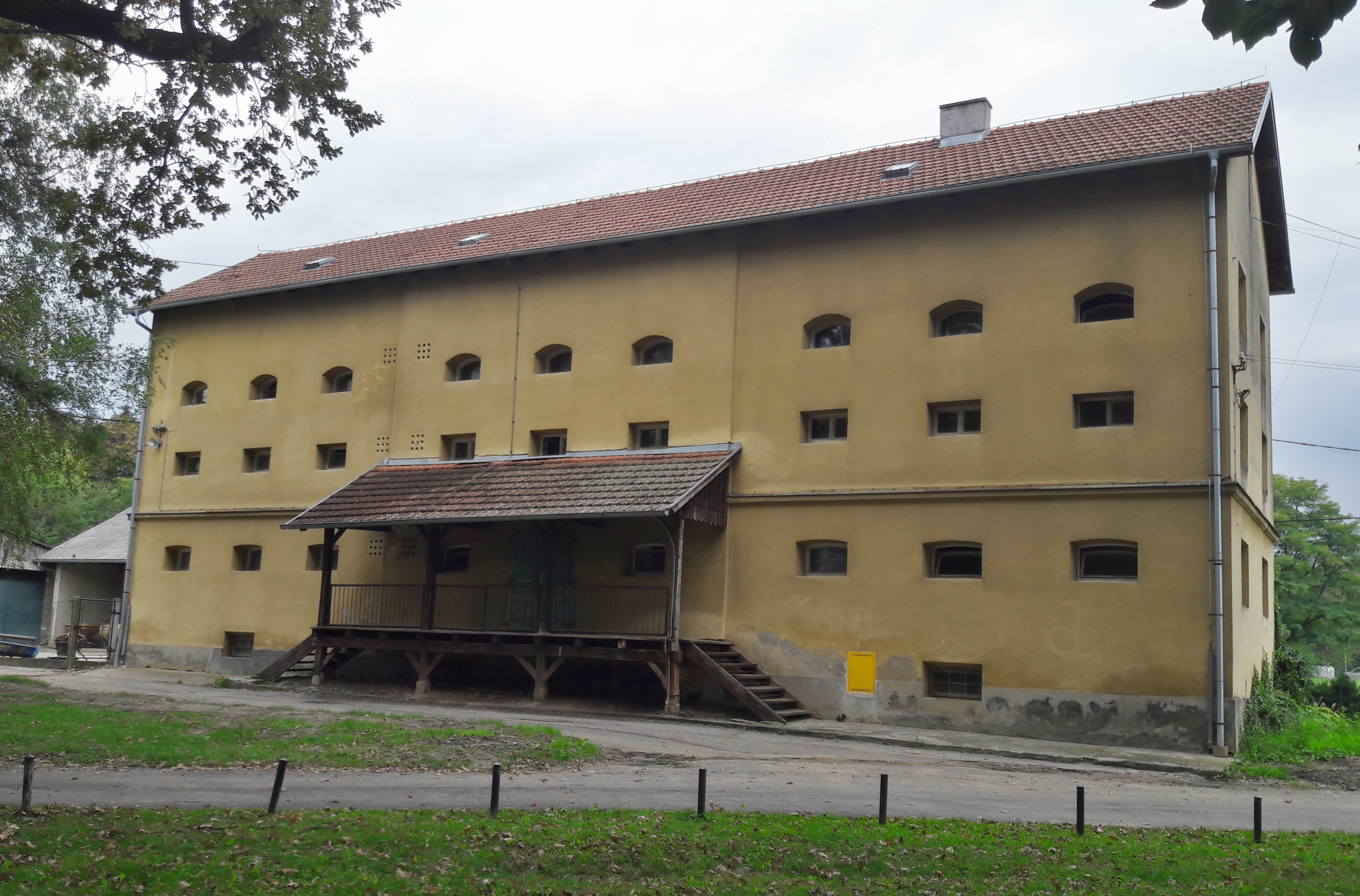 Ex Silk factory in Maksimir Park